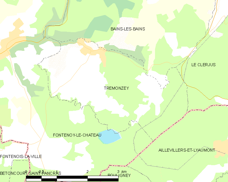 Map of French municipality Trémonzey